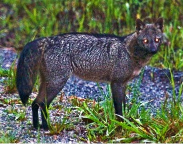 Crab-eating fox, Intervales State Park (Ribeirão Grande, São Paulo, Brazil)